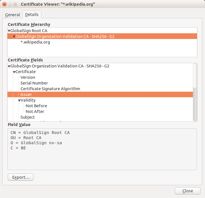 Public key certificate of *.wikipedia.org and the Chain of trust